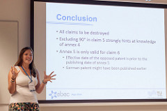 EBEC Case Study Presentation